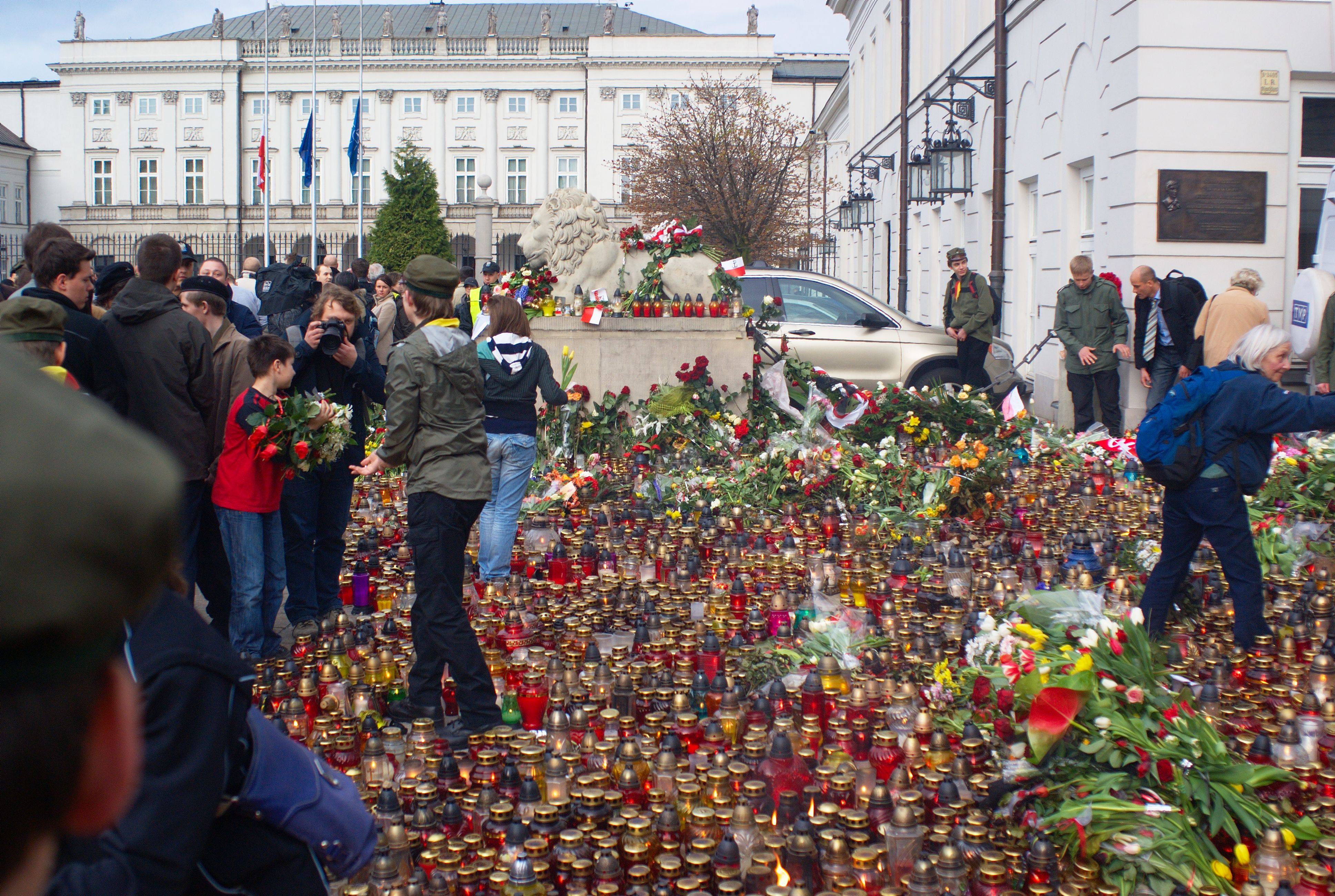 Warsaw after presidents plane crash. In front of presidential palace, Krakowskie przedmieście st.